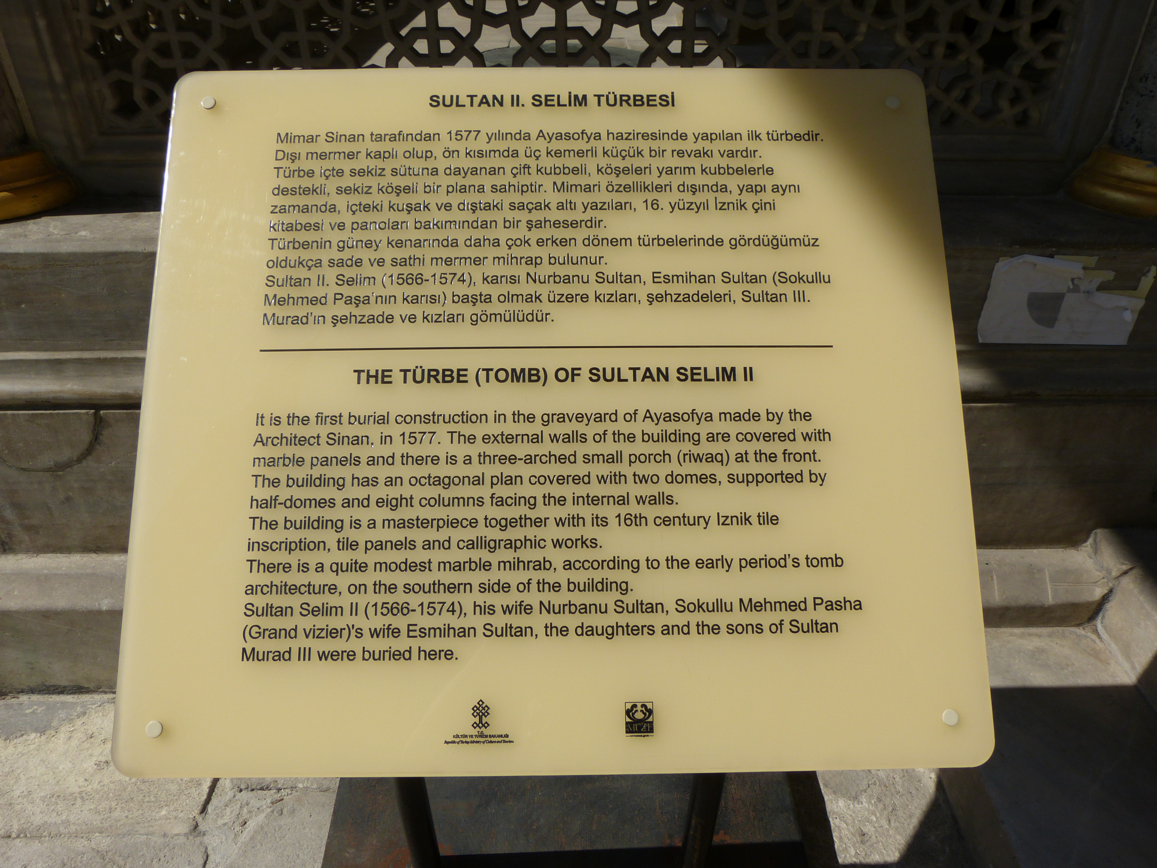 Türbe (Tomb) of Sultan Selim II. (1524–1574)